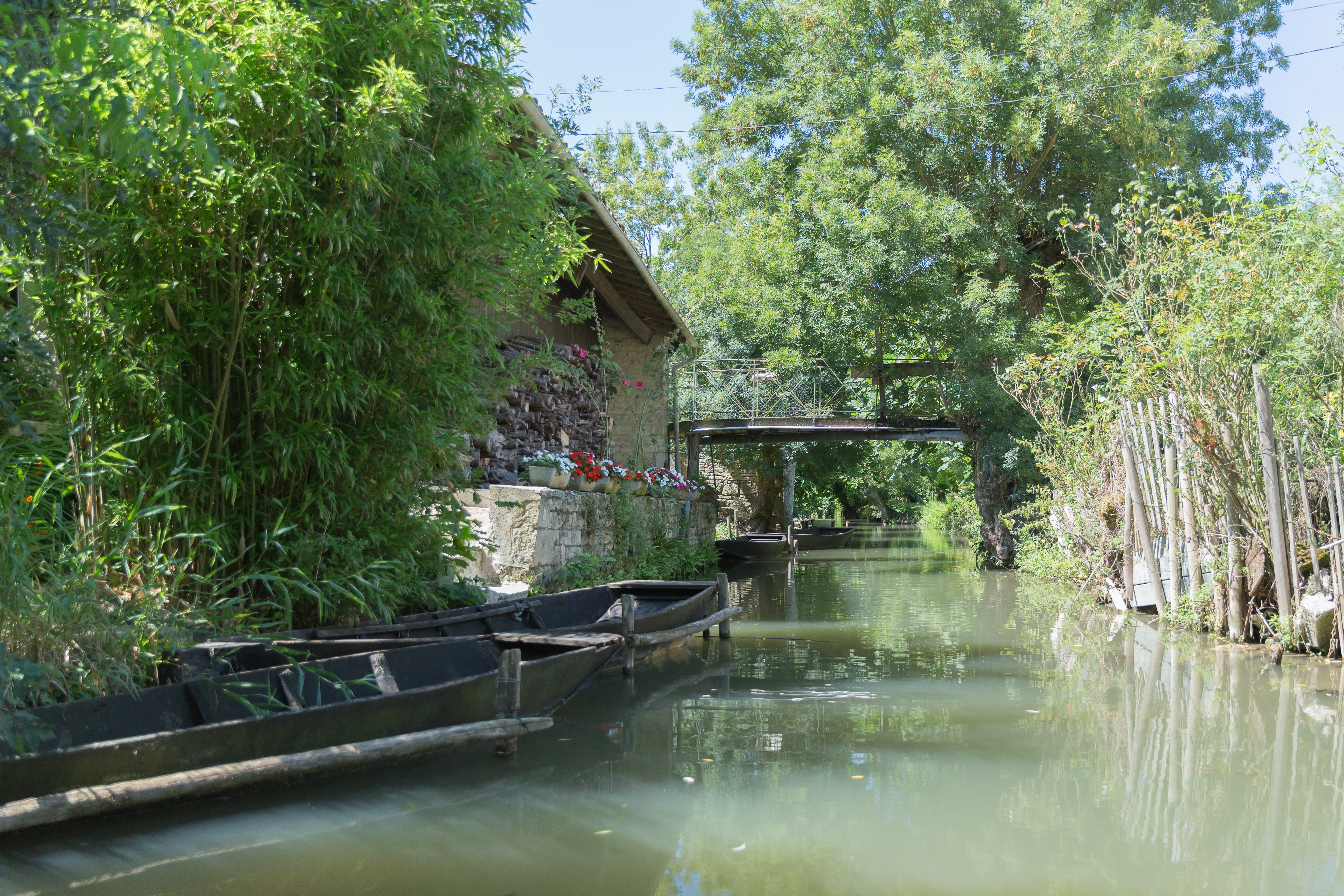 Conch shacks Sansais in the Marais Poitevin, France.